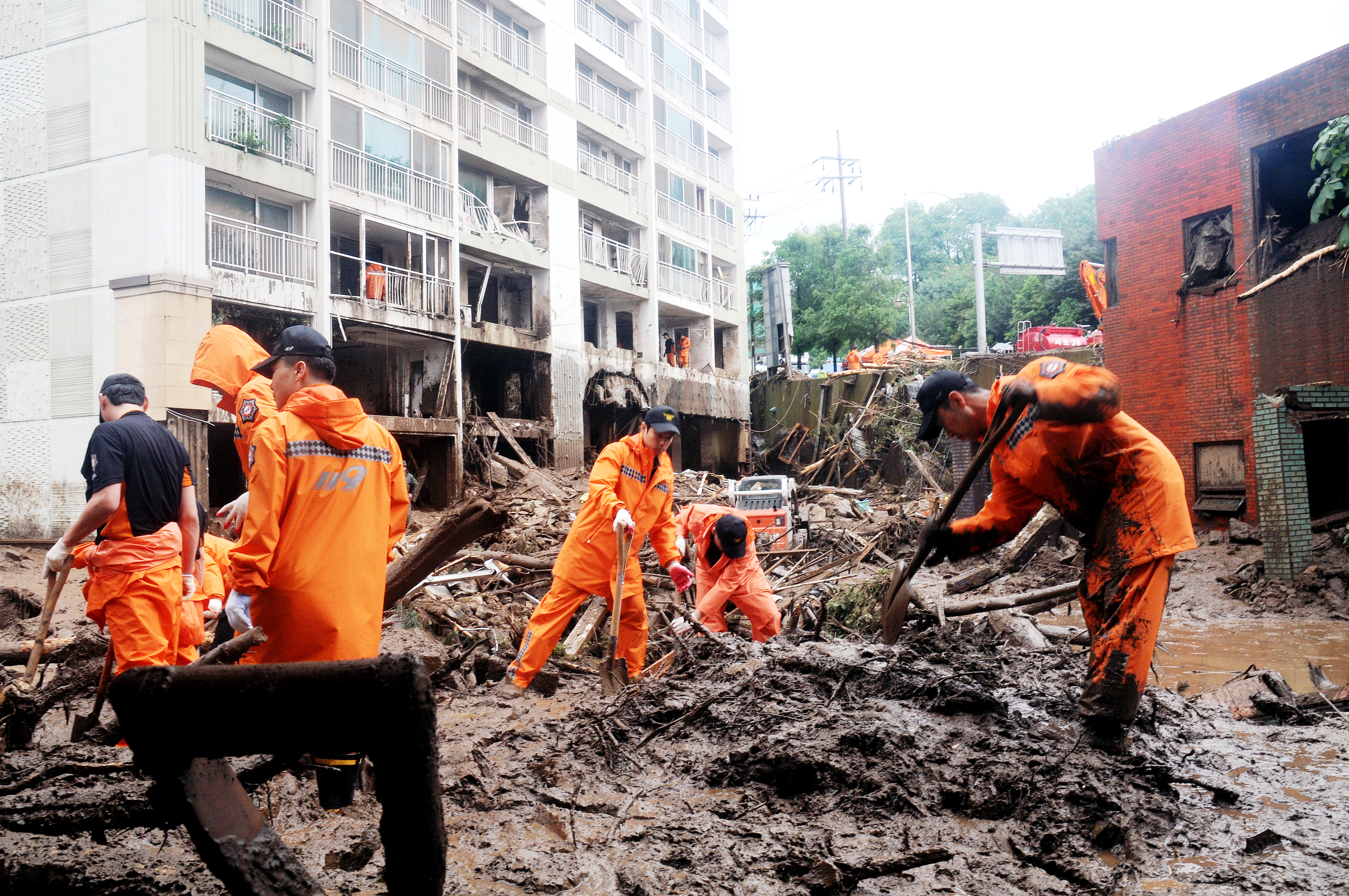 2011년 7월 우면산 산사태 서울소방 복구 활동